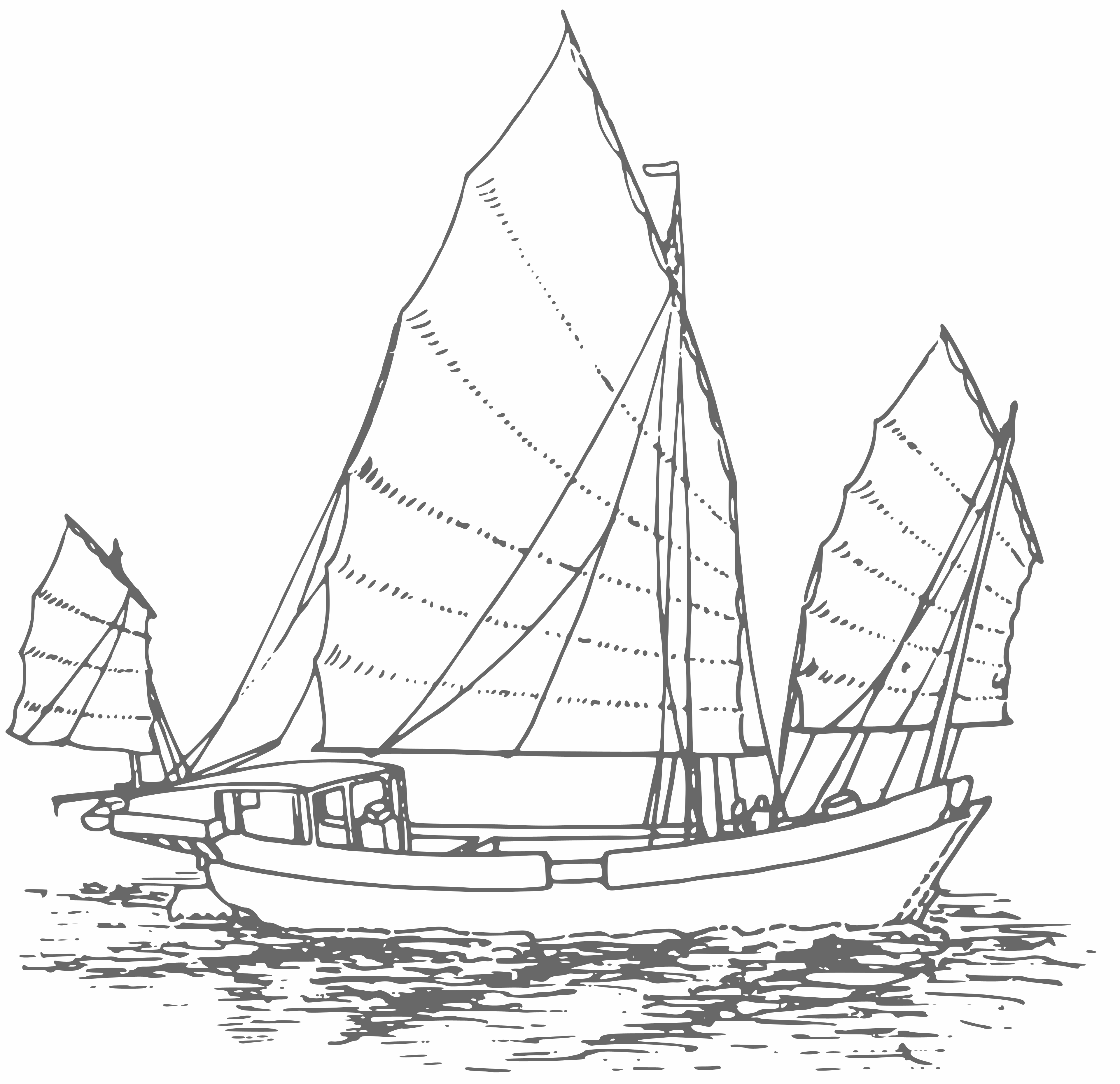 A picture of a Singapore Trader (Tongkang) , lightly laden, under full sail. Singapore Strait, January, 1950. This picture is a vector reproduction of a sketch by C. A. Gibson-Hill.